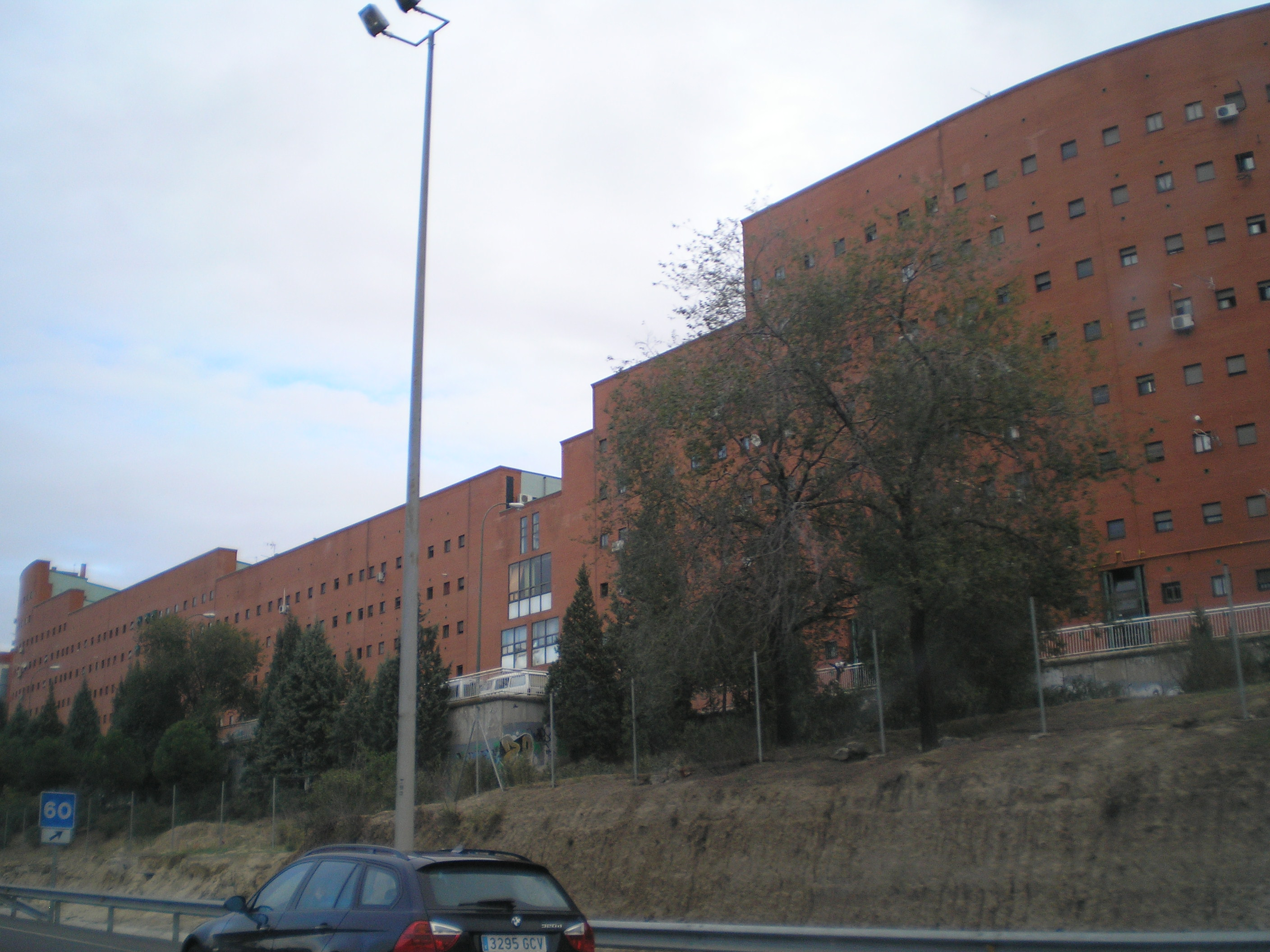 Apartments "El Ruedo", Madrid.